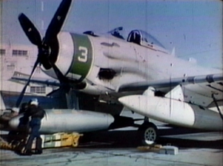 BOAR (BOmbardment Aerial Rocket) unguided nuclear rocket being loaded on Douglas AD-7 "Skyraider" BuNo 142015 of VX-5 at NOTS China Lake. Still from "Secret City" video.